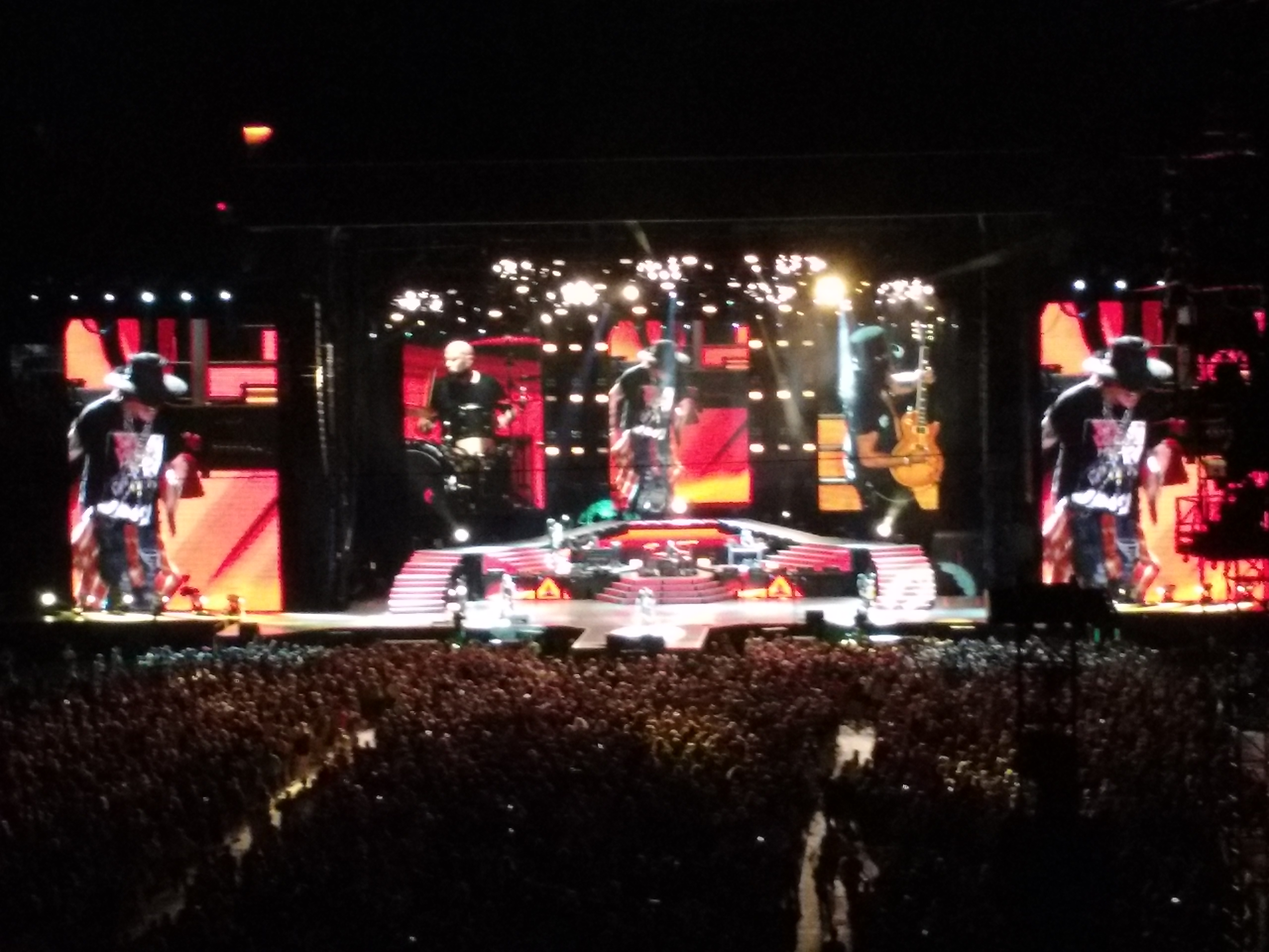 Guns N' Roses performing as part of the "Not In This Lifetime...' Tour on June 29, 2016 In Arrowhead Stadium in Kansas City, Missouri, USA.